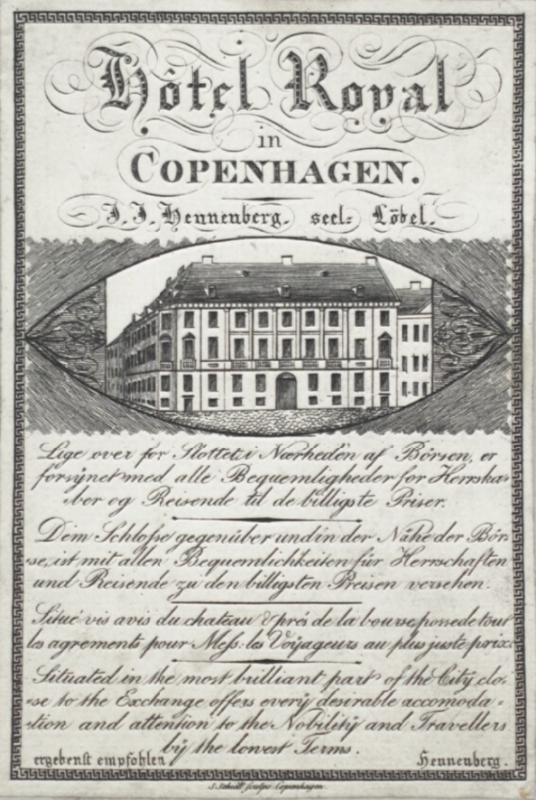 Advertisement for Hôtel Royal in Copenhagen. Ved Stranden nr. 18.